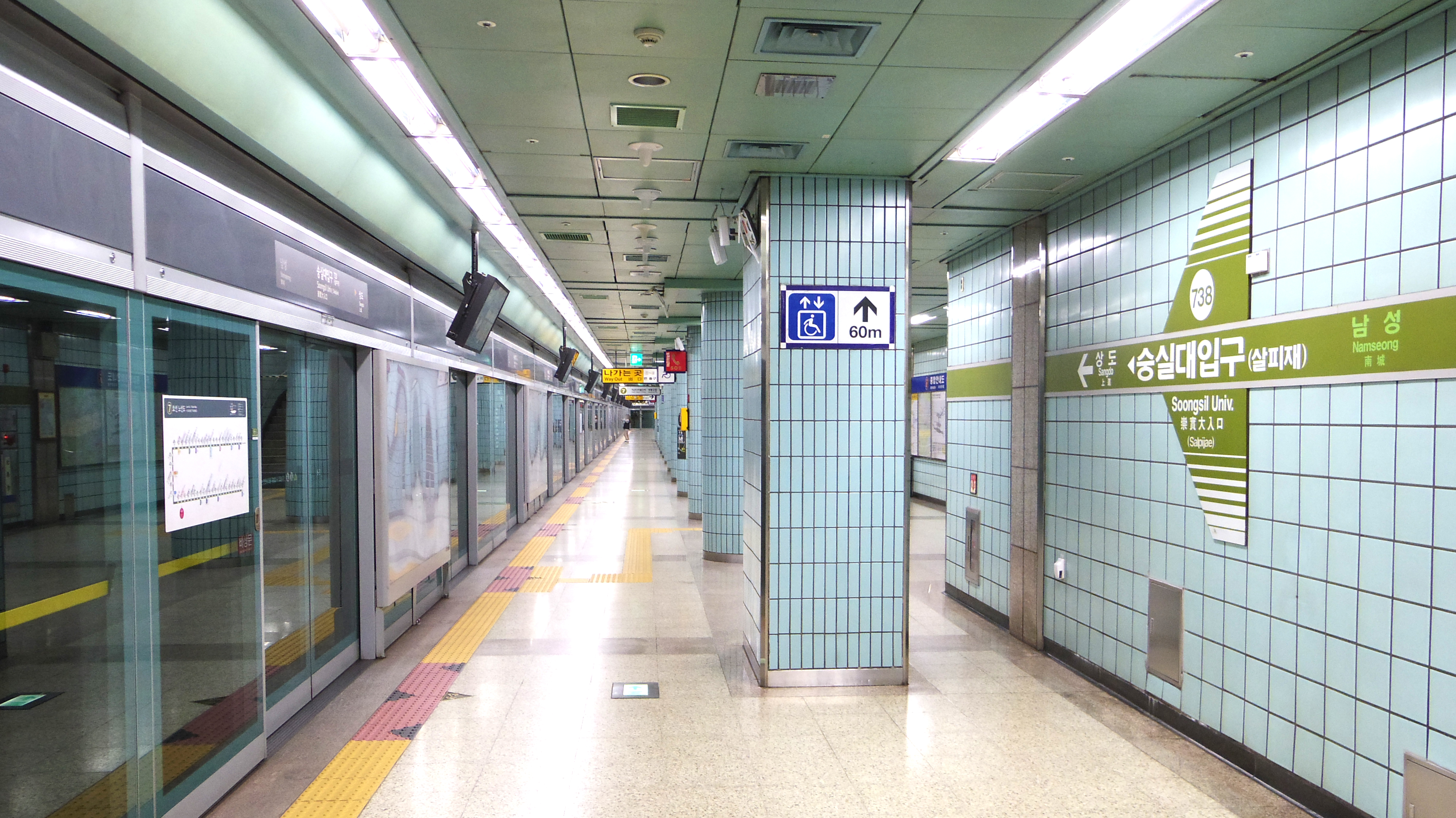 The Onsu-bound platform at Soongsil University Station on the Seoul Subway Line 7 in Dongjak-gu, Seoul, Republic of Korea(South Korea)